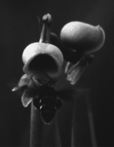 Male of Eulaema in the ‘hovering phase’ of behavior at Catasetum discolor